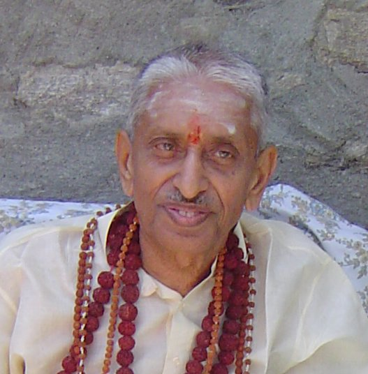 I, P.Yugesh Narayan am the Trustee of Sri Raja-Lakshmi Foundation, and am the owner of the image, which was created by us with full rights given by the person in the image.